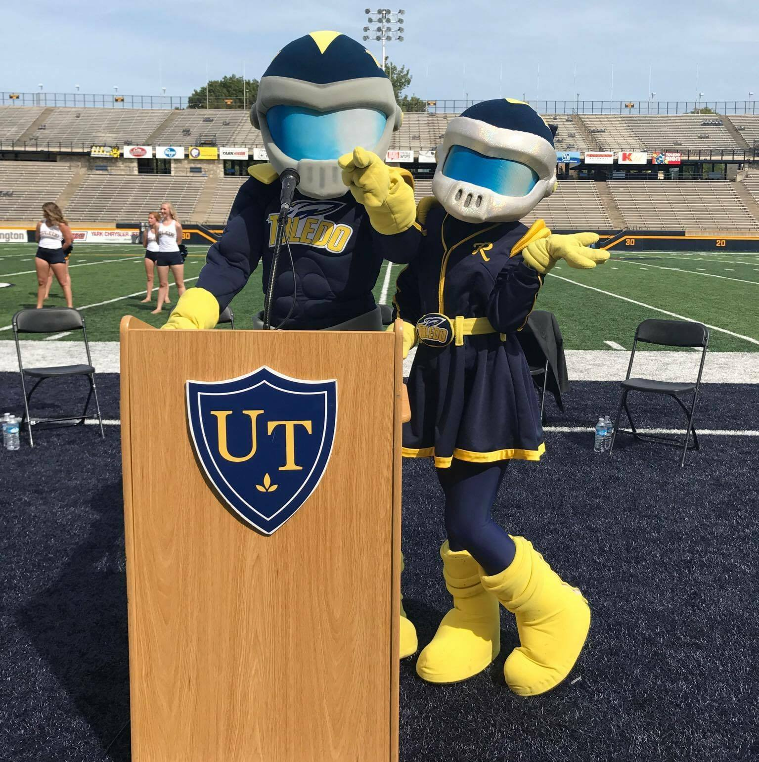 Rocky and Rocksy at the podium during Freshman Convocation at the University of Toledo.